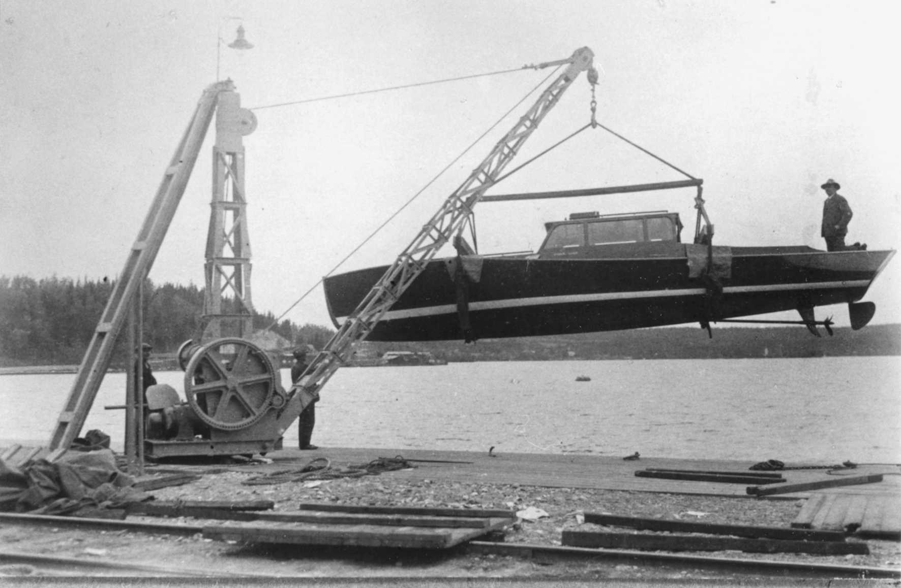 Launch of Rudolf Walden's boat in Vesijärvi port, Finland in 1930s